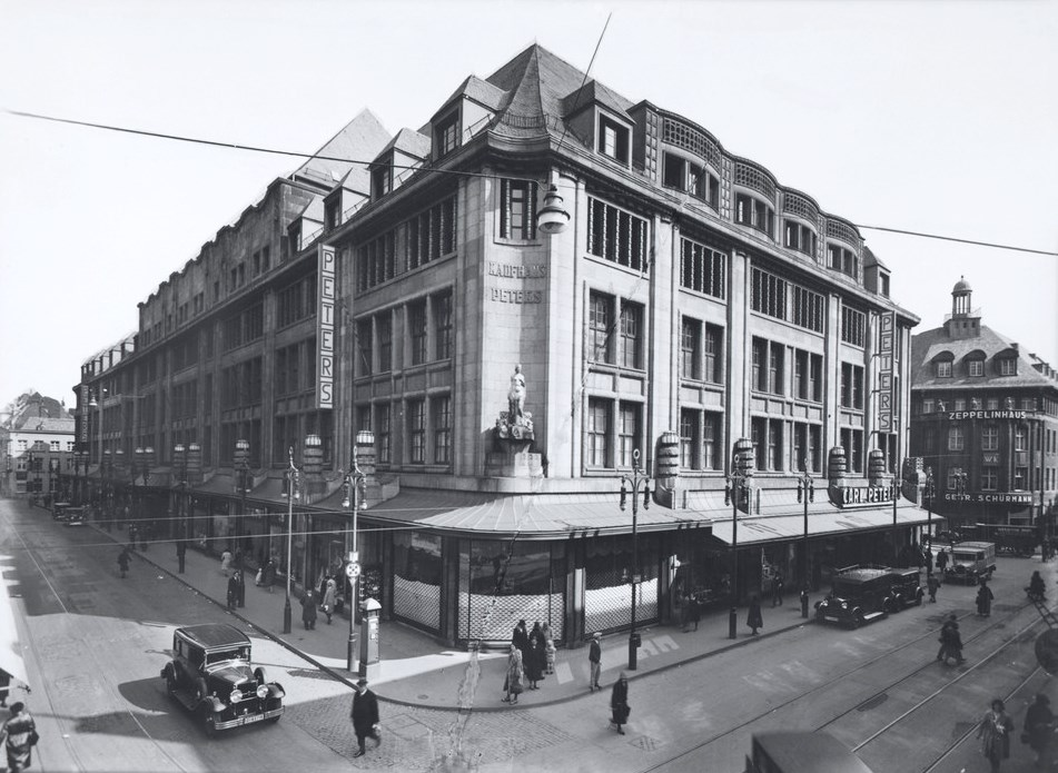 Kaufhaus Carl Peters, Köln, (rba_079017)